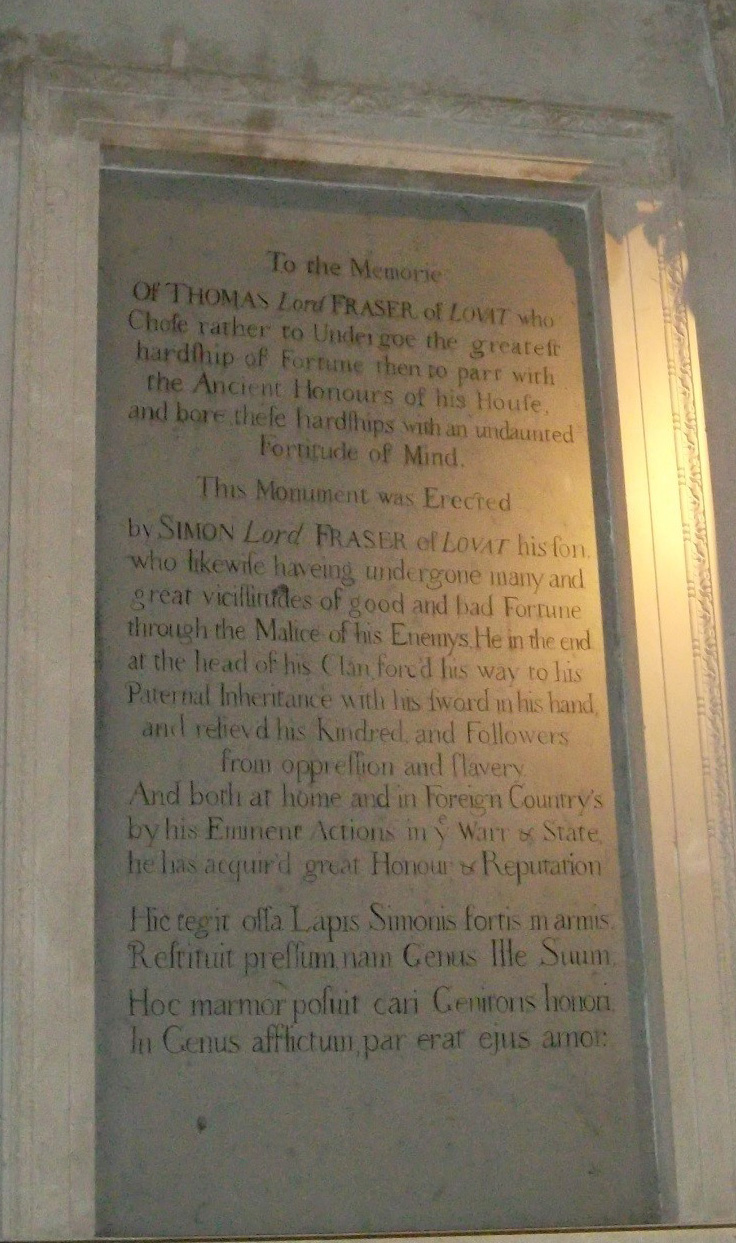 Memorial stone placed in Wardlaw Mausoleum, near Beauly, County of Inverness by Simon, 11th Lord Lovat in 1722 for his father. Wardlaw was built in the 1630s as a burial place for the Lovat Frasers and other significant branches of the Clan Fraser. (